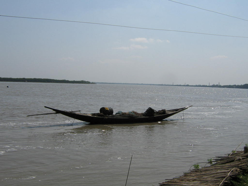 View of Icchamati Taken from Taki-Saidpur. Bangladesh Can Be Seen on the distant Horizon.